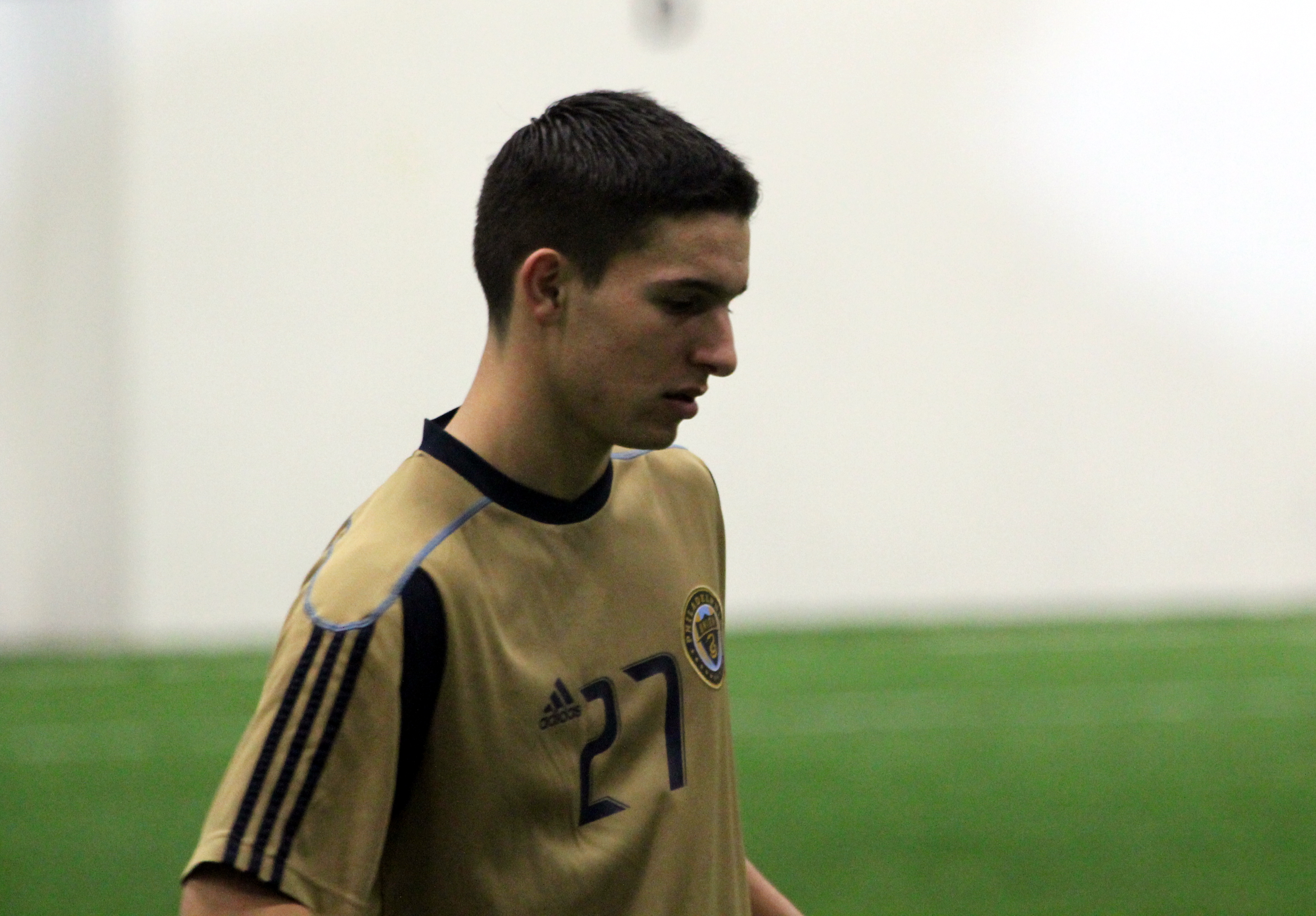 Zach Pfeffer participating in preseason training, with the Philadelphia Union, at YSC Sports in Wayne. January 25, 2011.